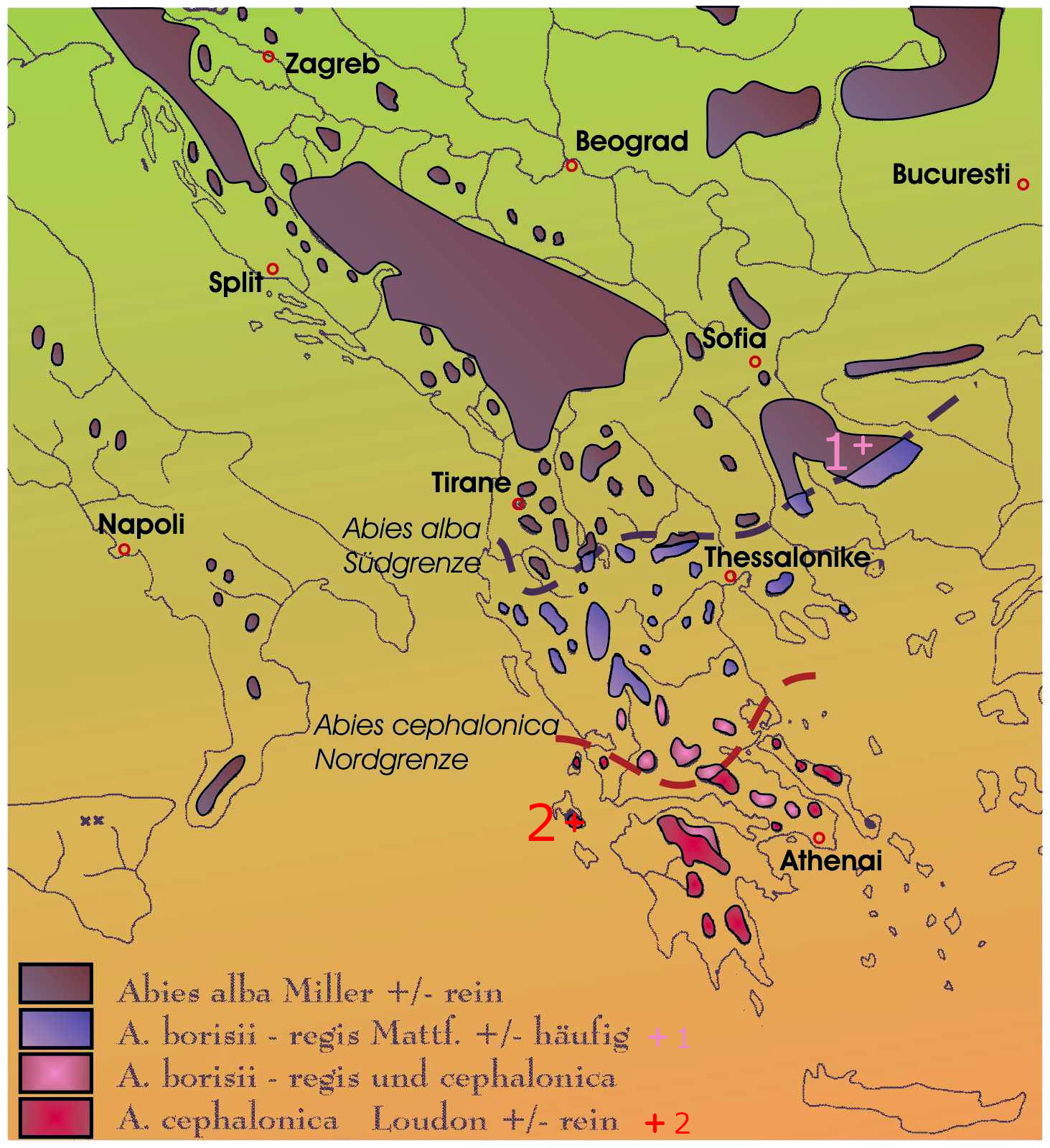 Distribution of the genus Abies in southeast Europe, zones of introgression between Abies alba, A. cephalonica and the naturalized hybridisation zone of A. borisii-regis. Map designed after Fukarek, Horvat, Glavac & Ellenberg and Kramer, from the Diploma thesis Soziologie und standortbedingte Verbreitung tannenreicher Wälder im Orjen Gebirge (Montenegro) 2002. P. Cikovac. Note: this map is of necessity inaccurate, as area cited as A. borisii-regis excludes the type locality of that species, near Plovdiv in Bulgaria.